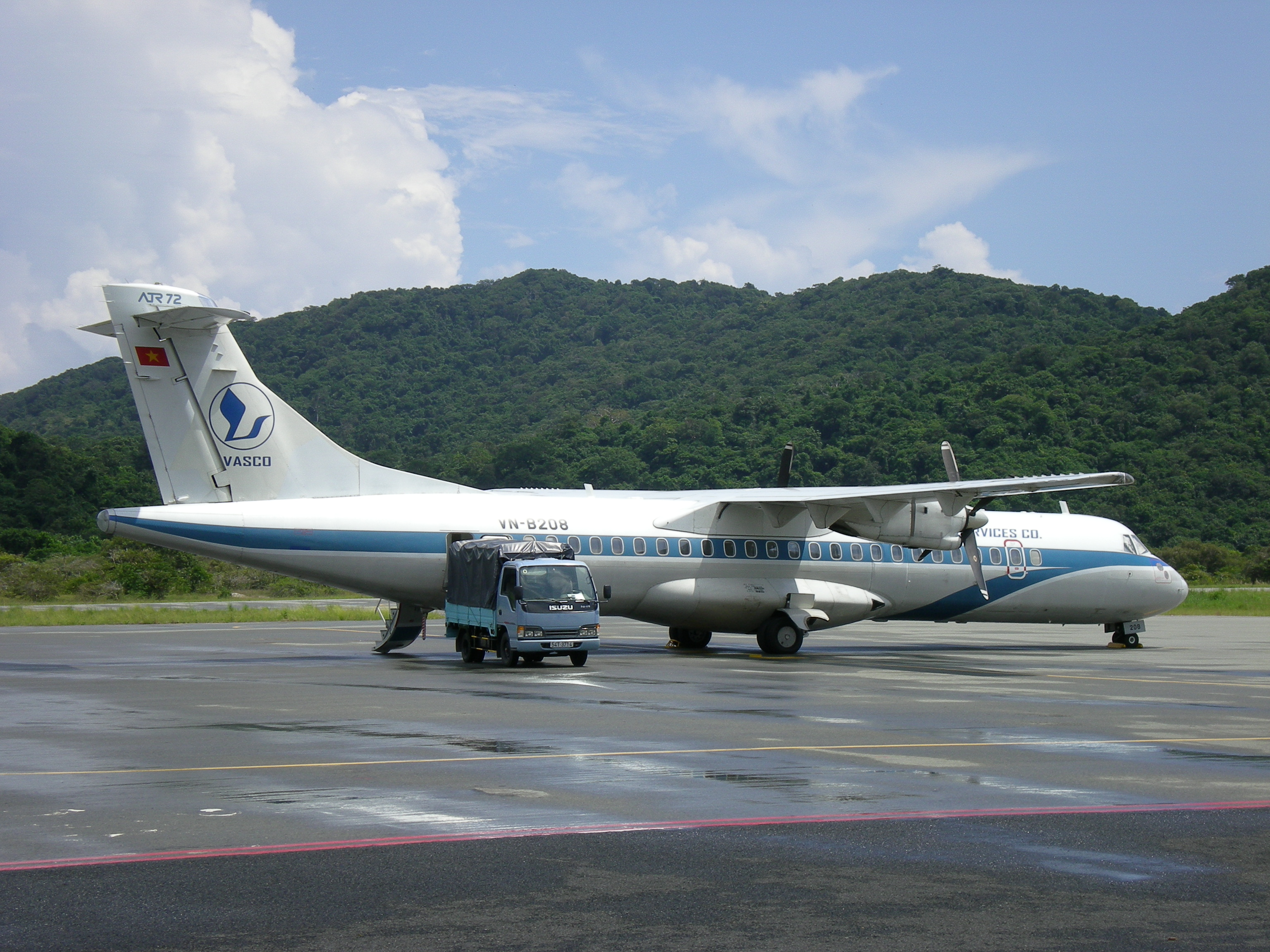 VASCO ATR-72 at Co Ong Airport, Location: Con Dao, Vietnam